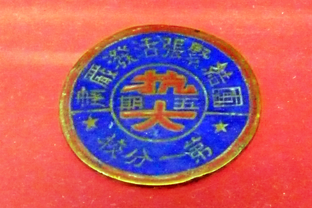 Badge of Kangri Junzheng University (Counter-Japanese Military and Political University).